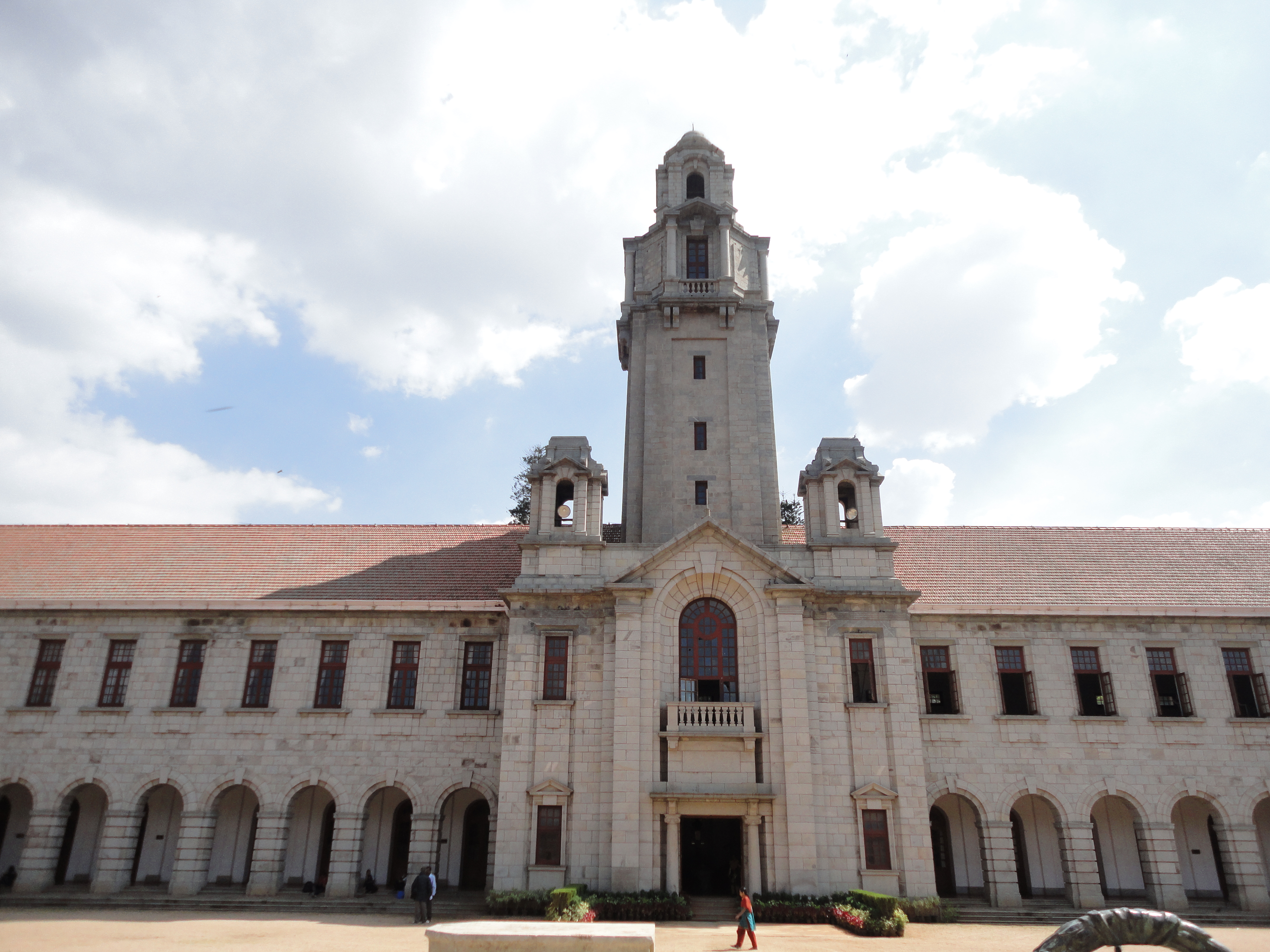 Convocation hall of Indian Institute of Science, Bangalore